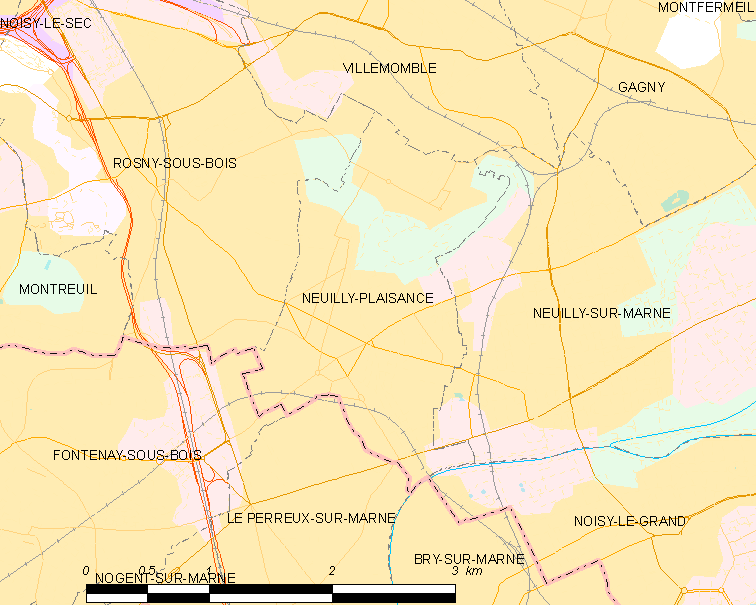 Map of French municipality Neuilly-Plaisance